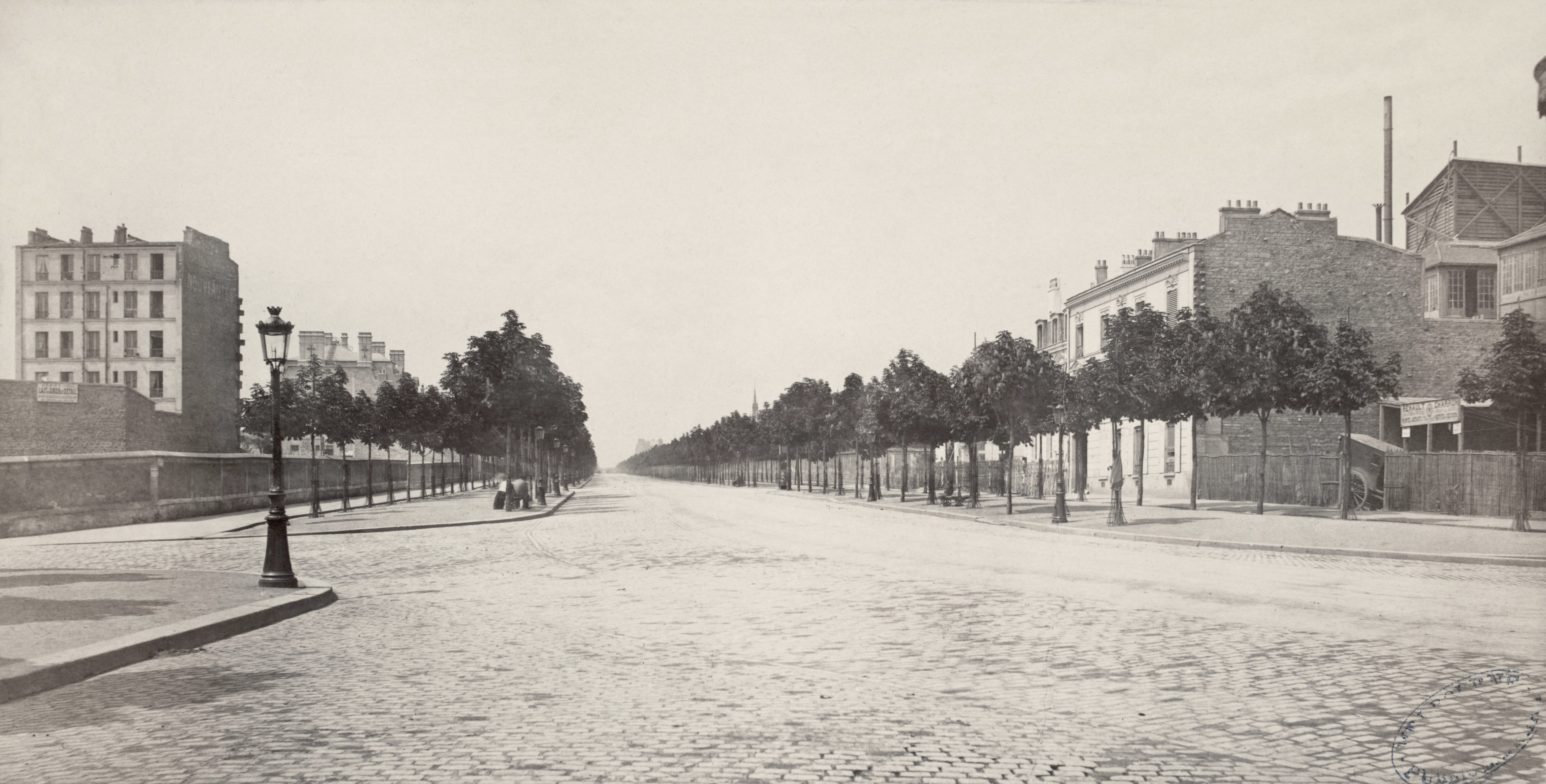 Looking along wide tree lined street from intersection.